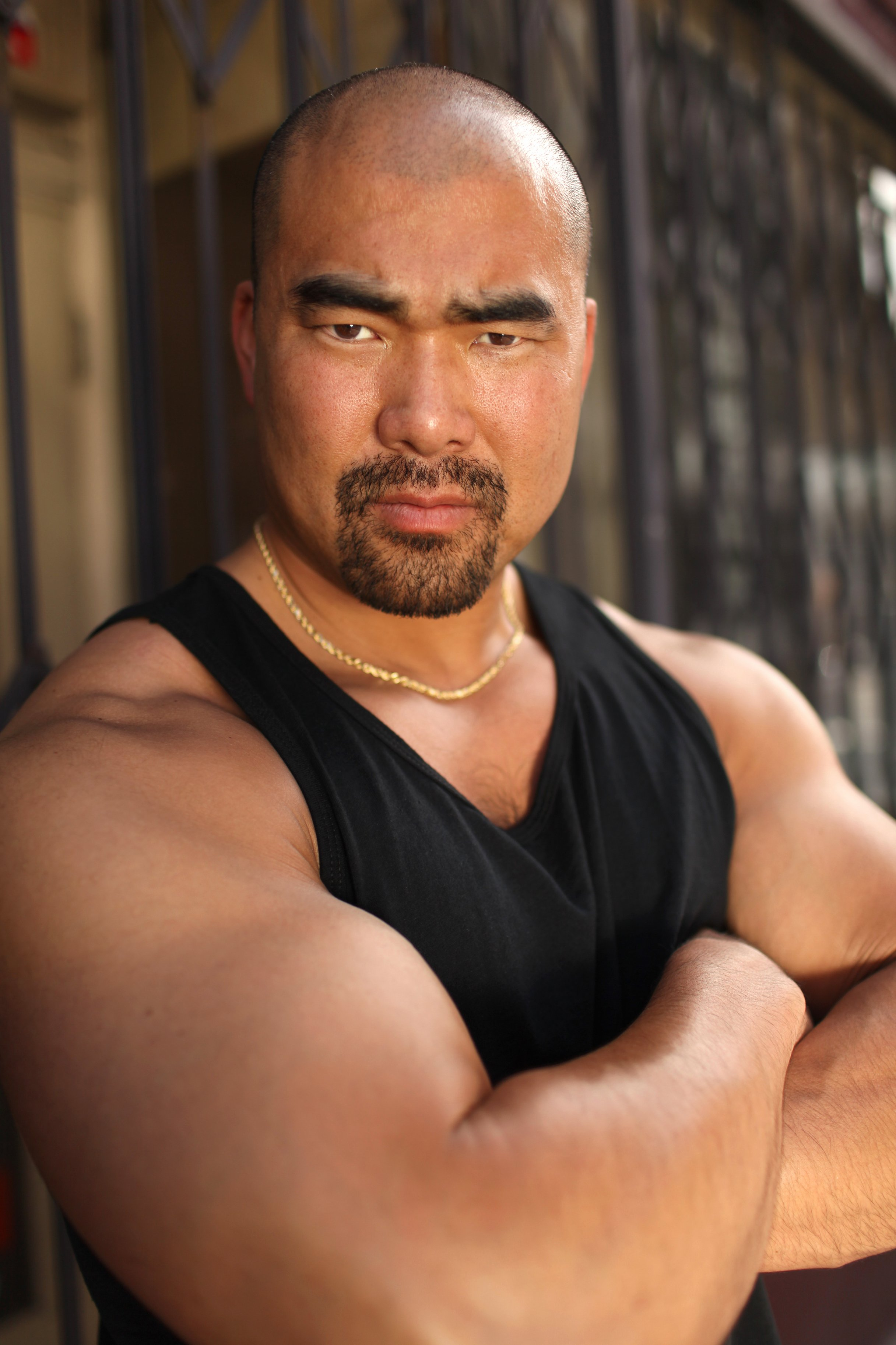 A headshot of Ryan Sakoda in 2010.